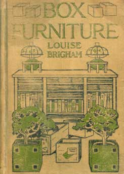 The cover of Louise Brigham's book "Box Furniture", published 1909